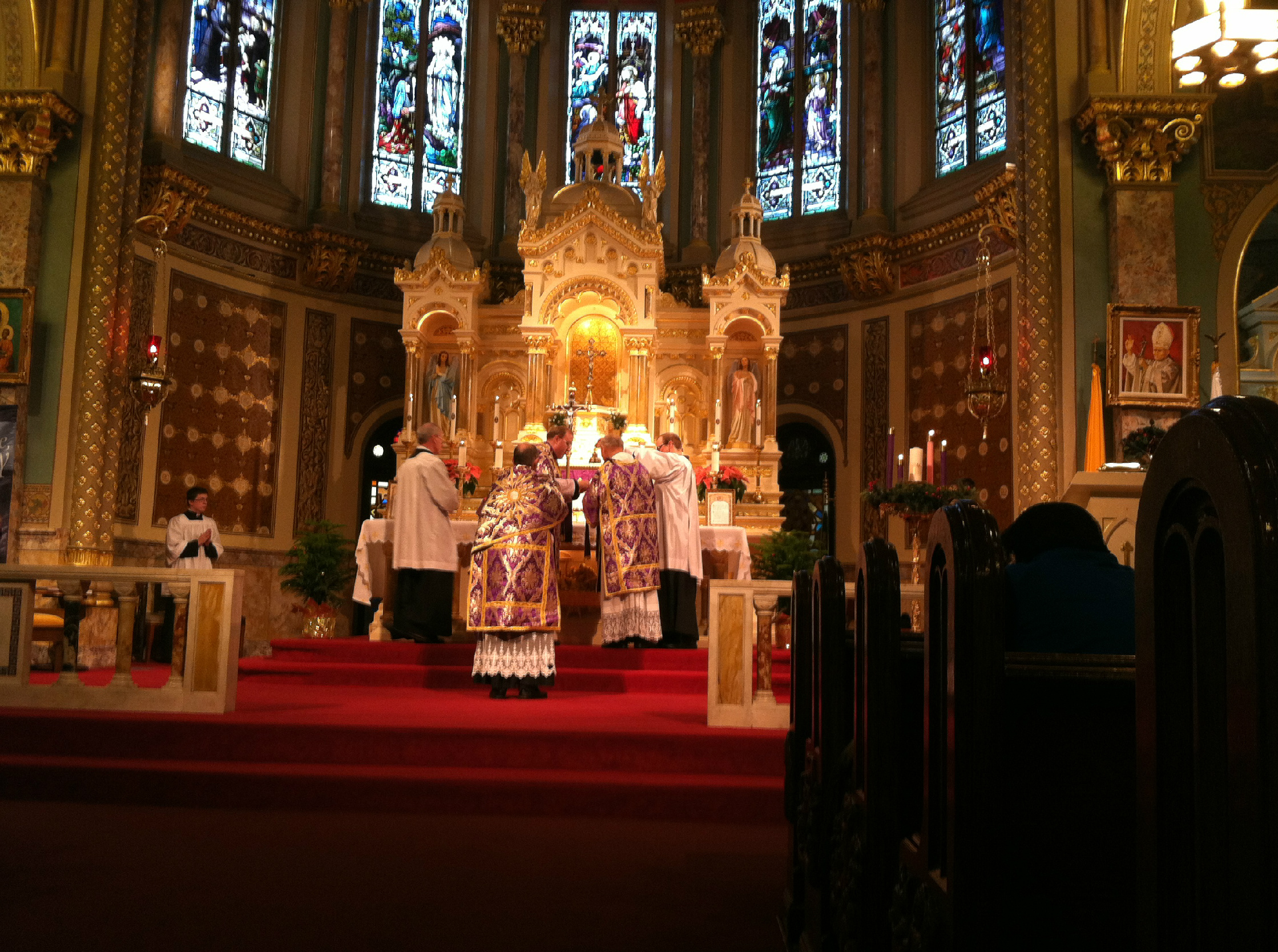 St. Stanislaus New Haven during a Solemn High MAss